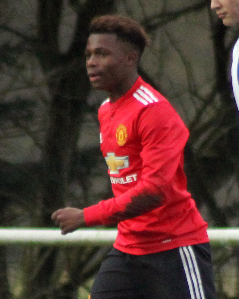 Blackburn Rovers U18s 1-4 Manchester United U18s U18 Premier League North Saturday 18 November Blackburn Rovers Training Centre